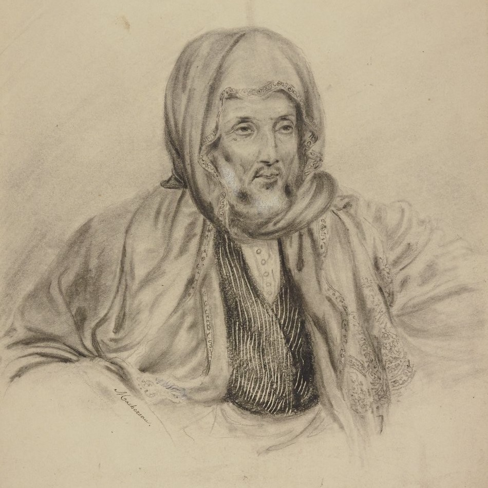 Engraving of Muhammad ibn ʿUmar at-Tūnisī